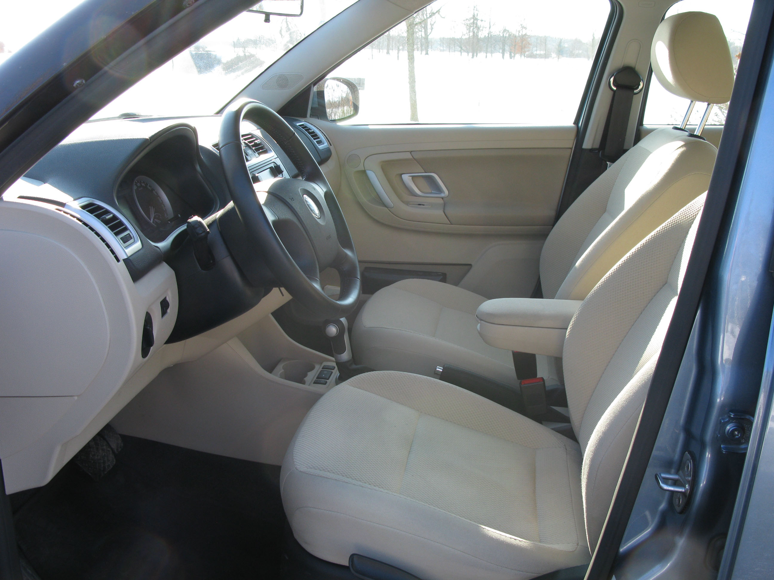 Skoda Fabia Elegance